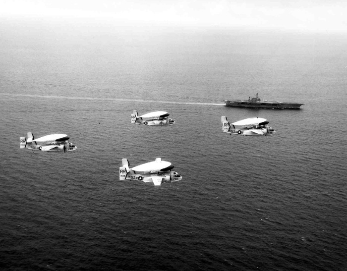 Four Grumman E-1B Tracers of Airborne Early Warning Squadron 11 (VAW-11) "Early Eleven" flying past the aircraft carrier USS Constellation (CVA-64) in 1963-64. VAW-11 was assigned to Attack Carrier Air Wing 14 (CVW-14) aboard the Constellation between February 1963 and September 1964. Aircraft of CVW-14 took part in the first attacks of the Vietnam war, following the so-called "Tonking Gulf Incident" in August 1964. Aircraft BuNo 148146 (in the foreground) was accepted by the U.S. Navy on 30 December 1960, and subsequently served in Carrier Airborne Early Warning Squadrons (VAW) 11, 12, and 121, flying in deployed attachments on board carriers of the Atlantic and Pacific Fleets, including the USS Constellation (CVA-64), USS Wasp (CVS-18), USS Saratoga (CVA-60), and USS Franklin D. Roosevelt (CVA-42). It arrived at the National Museum of Naval Aviation at Pensacola, Florida (USA) in 1975 still in the markings of service in the latter carrier with VAW-121.